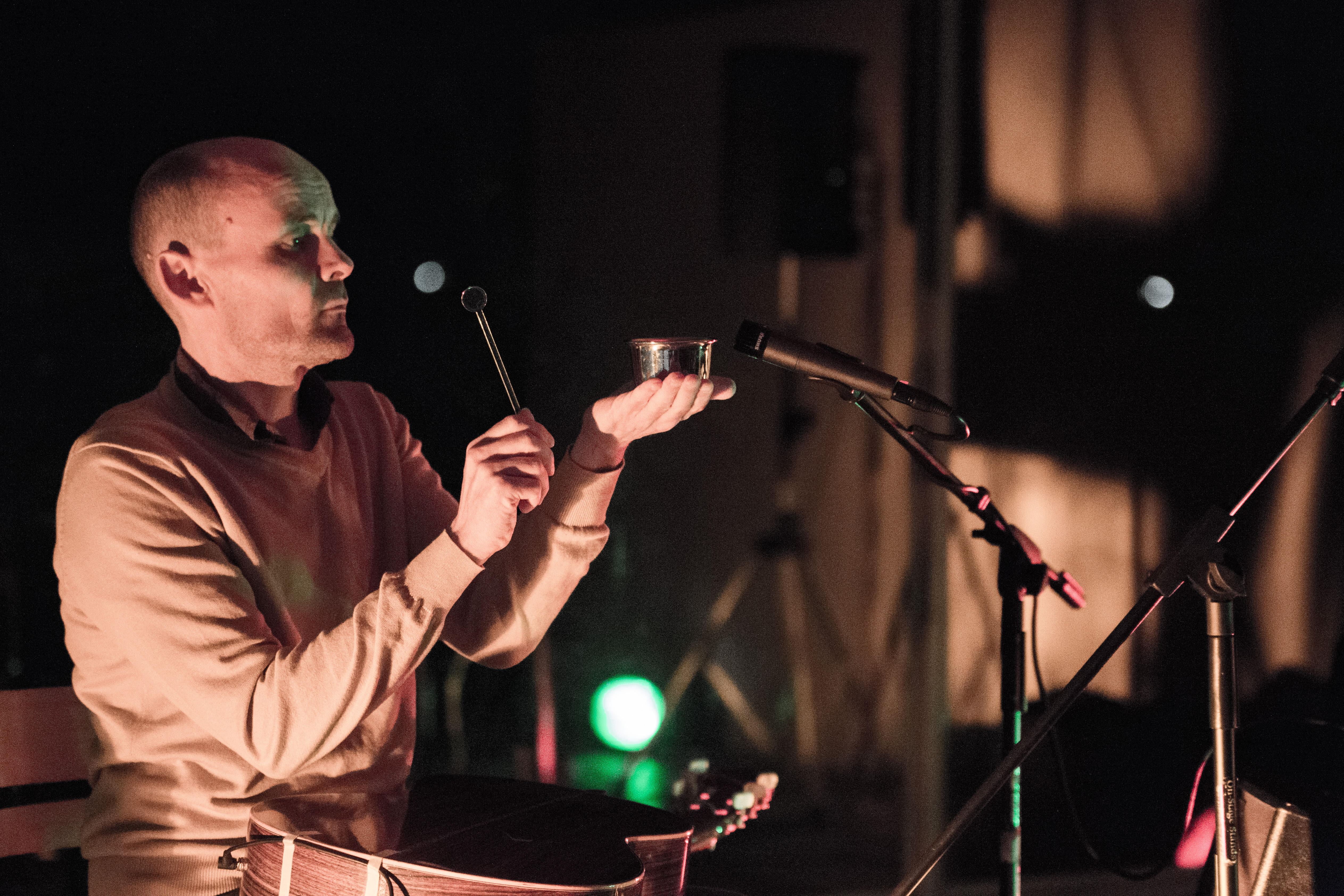 Personality rights warning Although this work is freely licensed or in the public domain, the person(s) shown may have rights that legally restrict certain re-uses unless those depicted consent to such uses. In these cases, a model release or other evidence of consent could protect you from infringement claims.